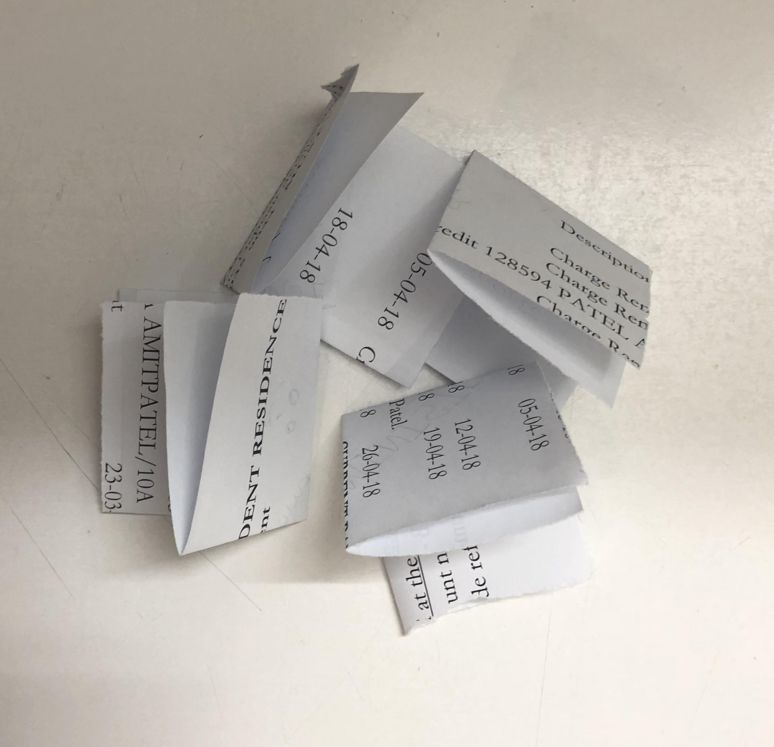 Suffled Chits